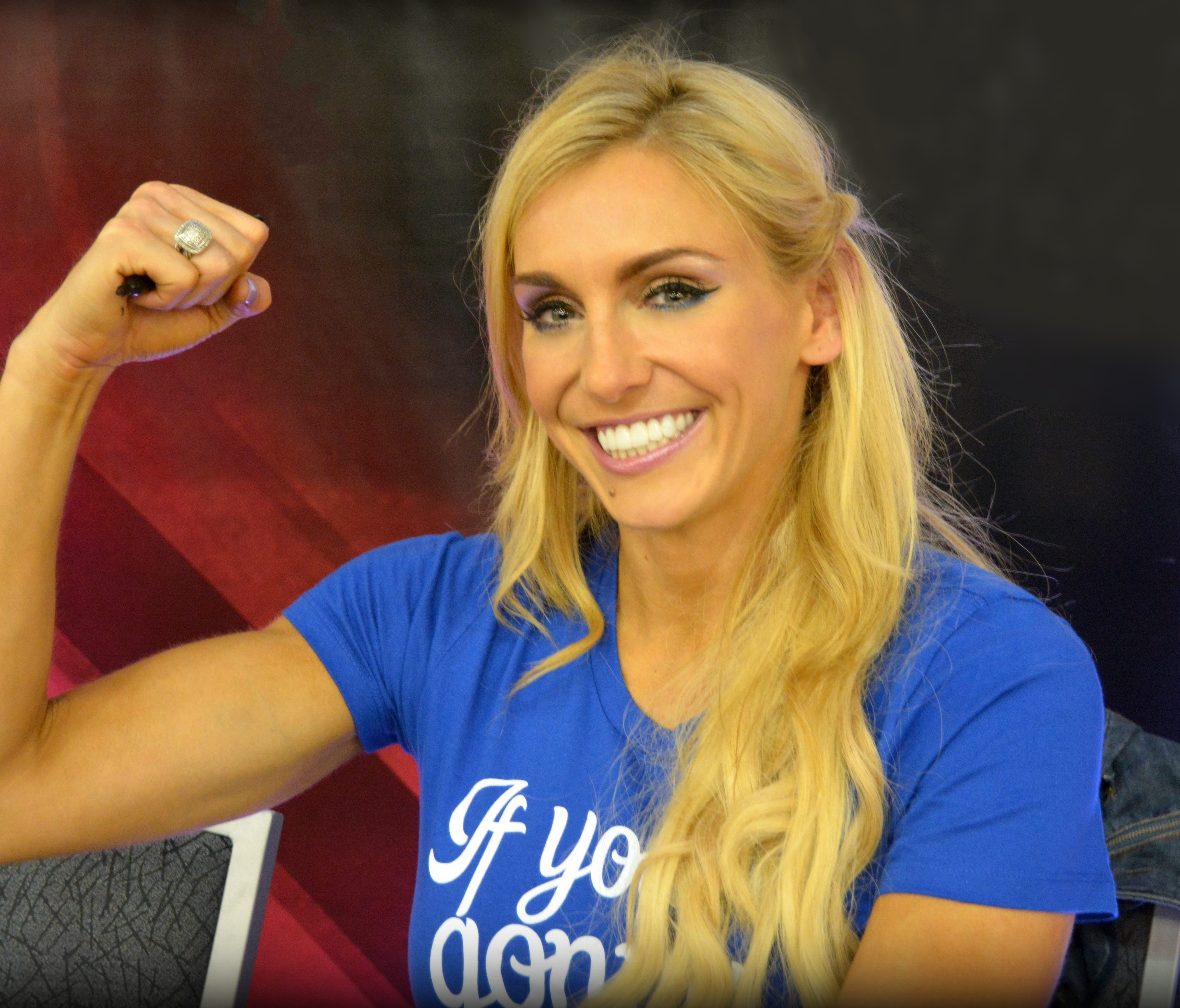 NXT star and former Women's Champion Charlotte at the 2015 WrestleMania Axxess in San Jose, California on March 20, 2015.